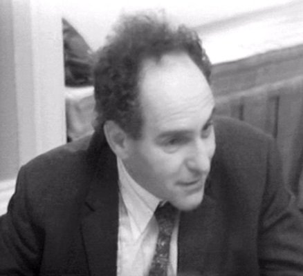 Gellner at the fourth SSRC Seminar